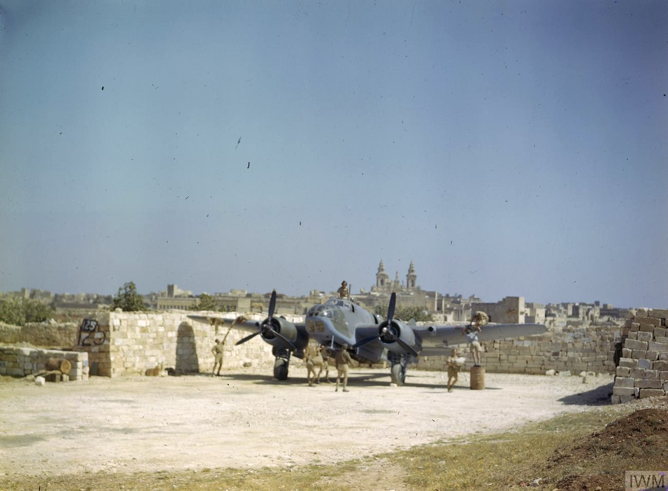 Resting in blast-wall protected Dispersal Point 125 at Luqa airfield, a Bristol Beaufort Mark II of No 39 Squadron, Royal Air Force is attended to by ground crew in June 1943.